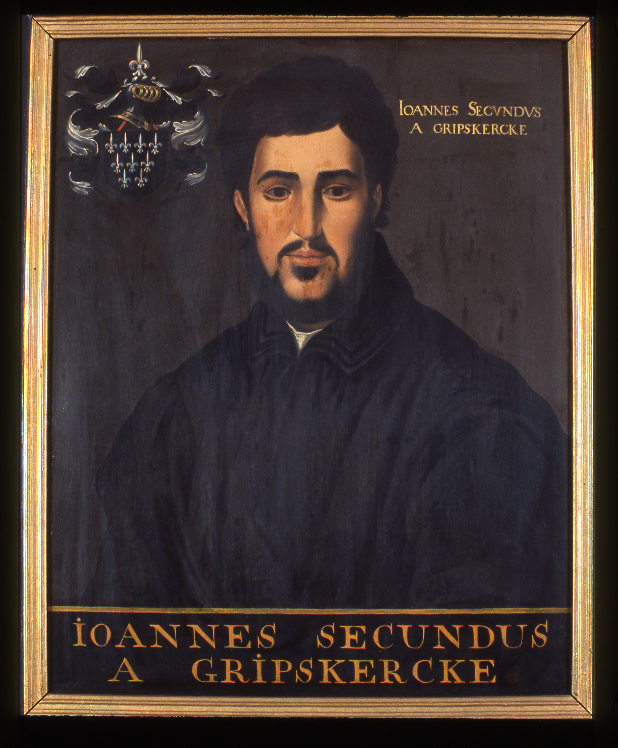 Sixteenth-century portrait of the Neolatin poet Janus Secundus from The Hague. Icones Leidenses 15, Collection Leiden University (The Netherlands). Coats of arms painted by Isaac Claesz. van Swanenburg (1537-1614), invented by Jan van Scorel (1495-1562)